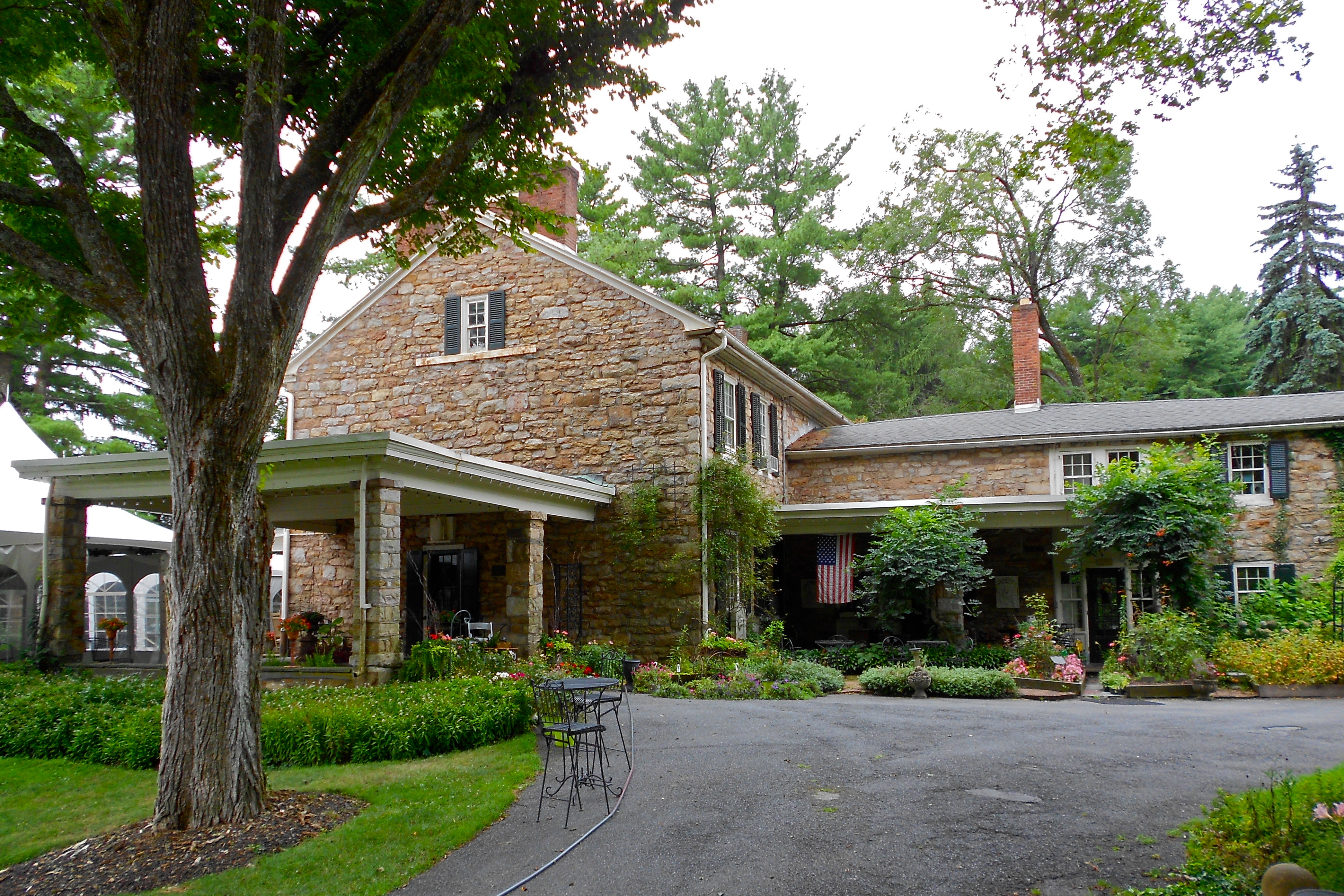 John Ayres House, listed on the NRHP on September 7, 1979, at 1801 Peter's Mountain Rd. (at the corner of Mountain Road, believe it or not); Northwest of the village of Dauphin on PA 325, Middle Paxton Township, Dauphin County, Pennsylvania.